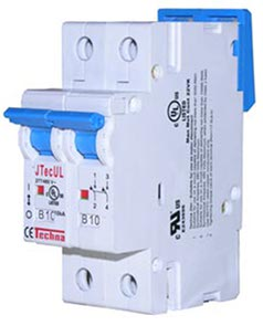 An automatic switch